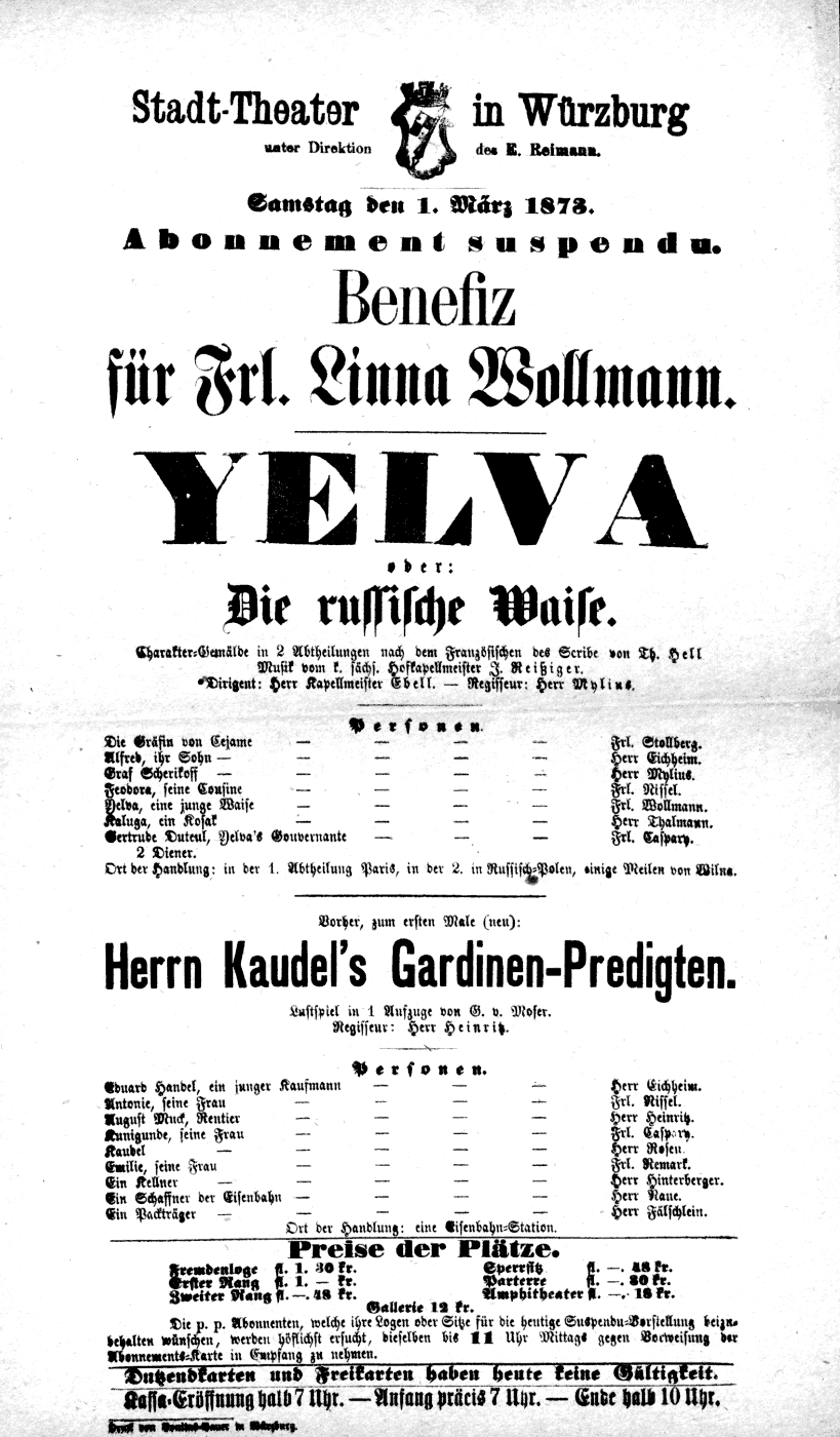 Theatre poster: Yelva by Eugène Scribe